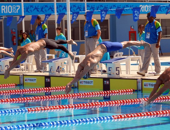 Start of Men's 200m medley final at the 2007 Pan American Games